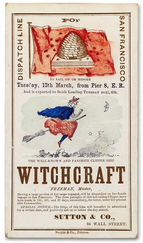 WITCHCRAFT Clipper ship sailing card